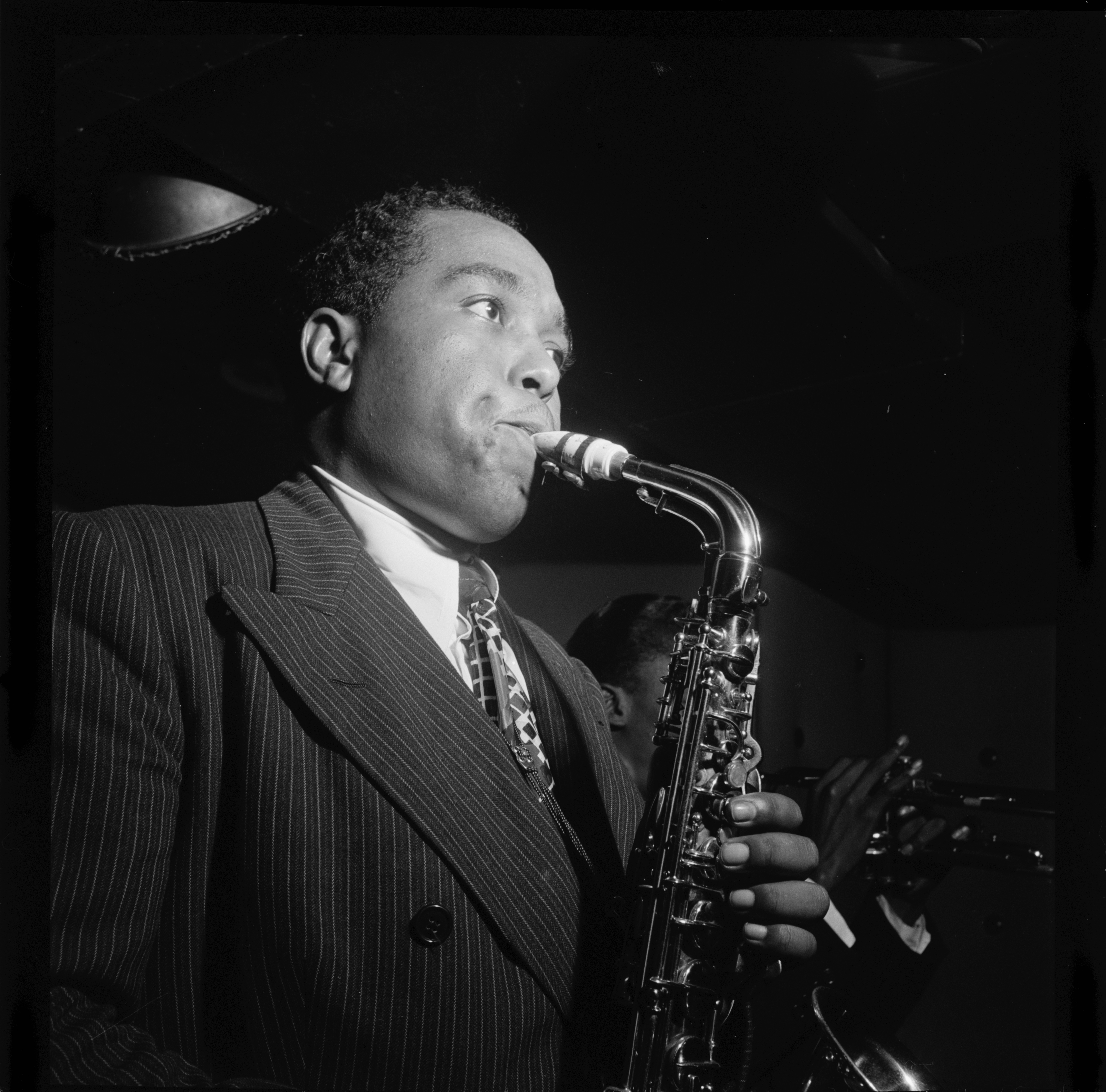 Portrait of Charlie Parker in the Three Deuces of New York (N.Y.), in August 1947. Next to him, there is Miles Davis.